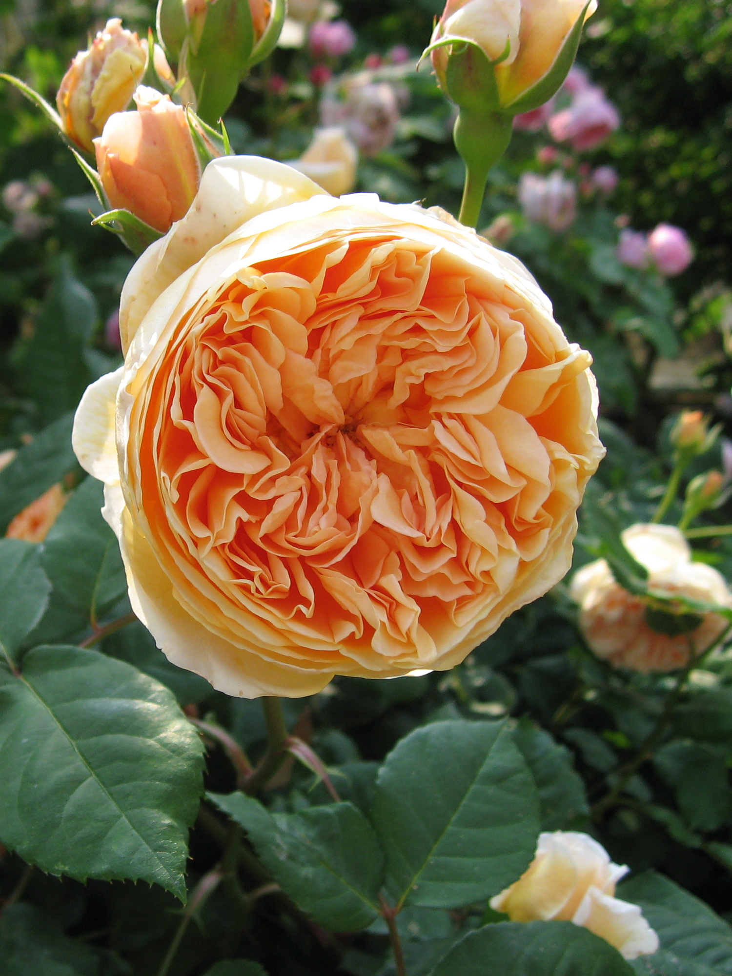 Rosa cv 'Crown Princess Margareta', ER, David Austin (1999), at the English Rose garden of Ofusa-Kannon (temple) Ousa Kashihara, Nara, Japan.